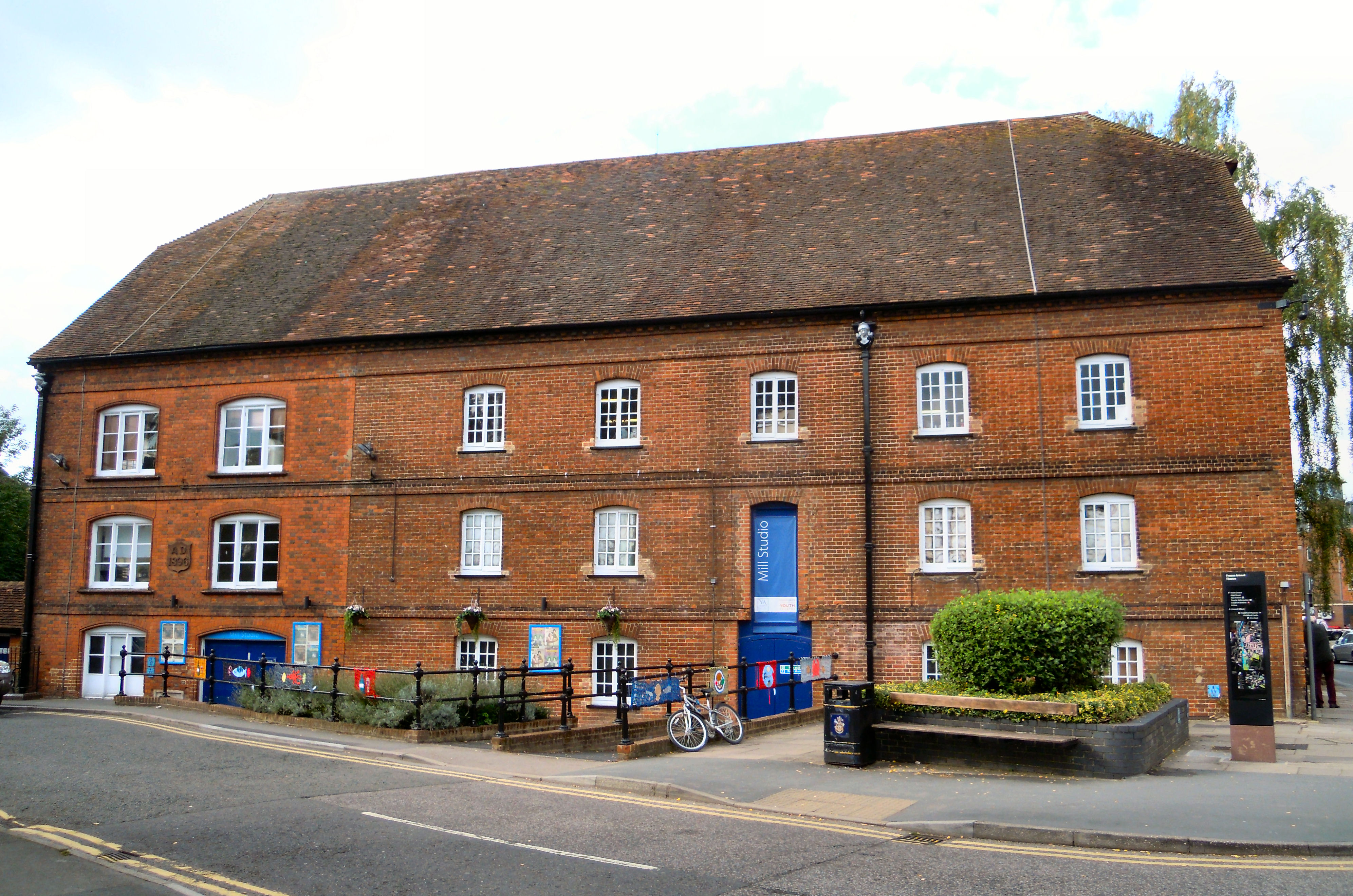 The Mill Studio at the Yvonne Arnaud Theatre in Guildford